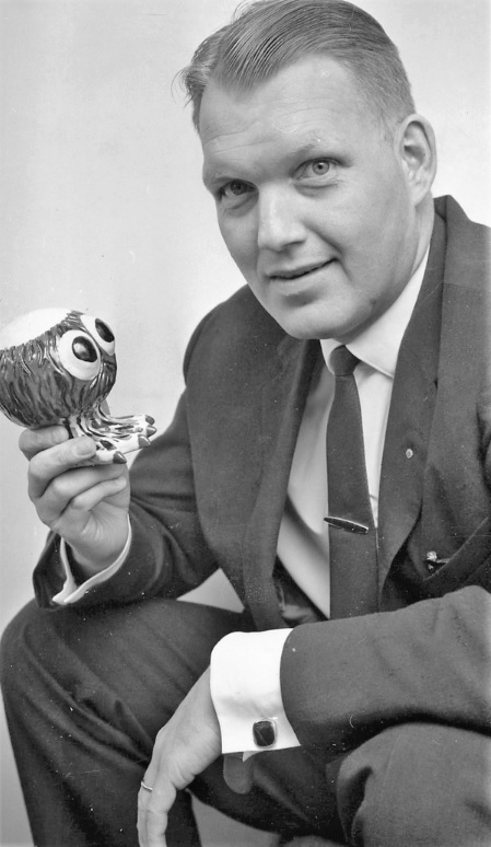 Bengt Bedrup, with TV's ball kickers visited Luleå on 14 May 1964. The TV team won over Luleå 5-2.